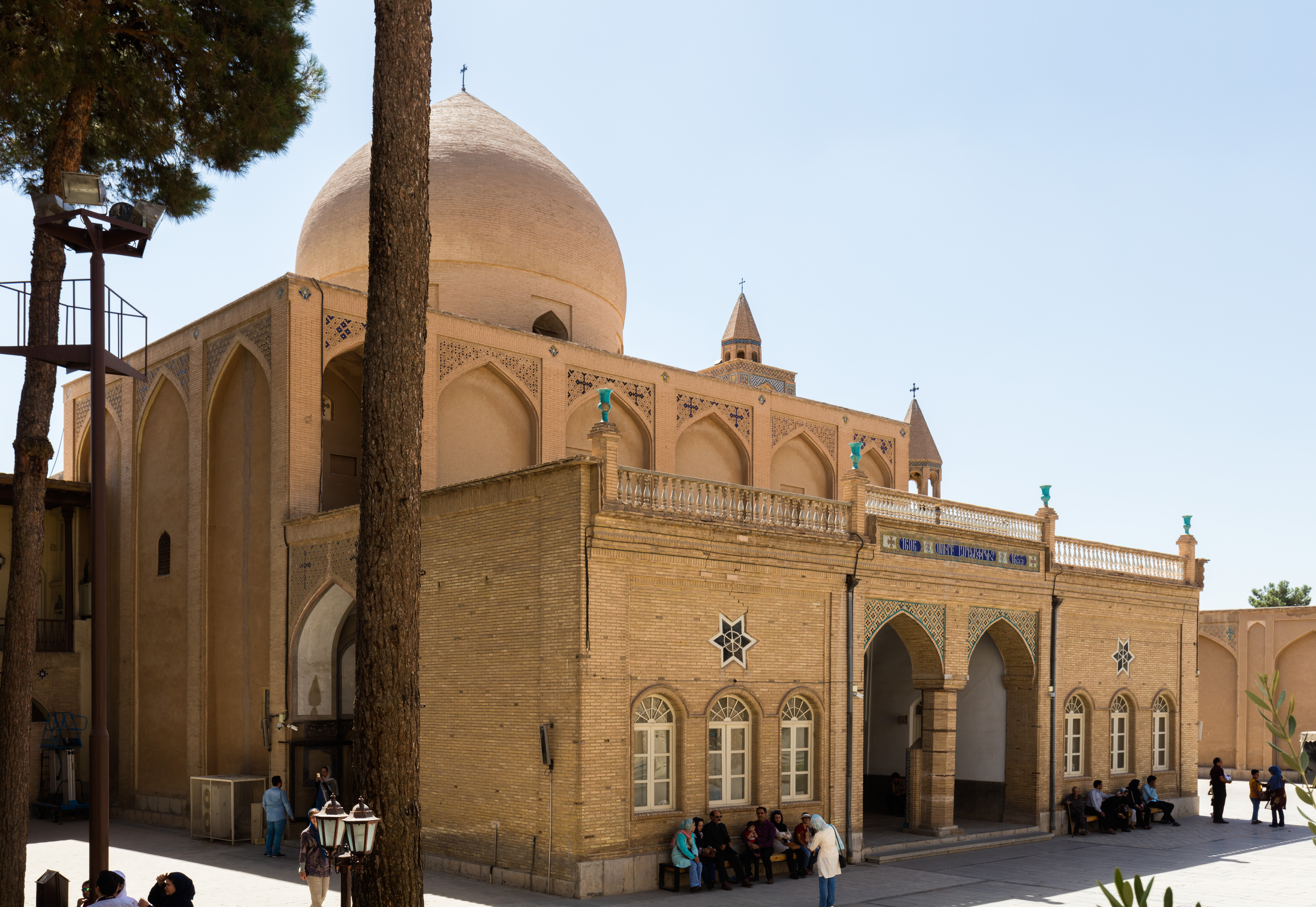 Vank Cathedral, Isfahan, Iran